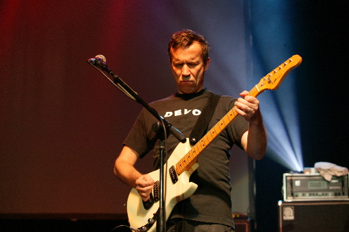 Bob Mothersbaugh of Devo, Albuquerque NM.